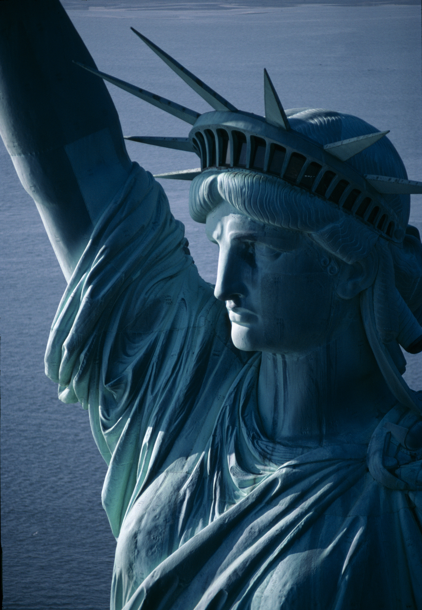 Located on a 12 acre island, the Statue of Liberty Enlightening the World was a gift of friendship from the people of France to the people of the United States and is a universal symbol of freedom and democracy. The Statue of Liberty was dedicated on October 28, 1886, designated as a National Monument in 1924 and restored for her centennial on July 4, 1986.